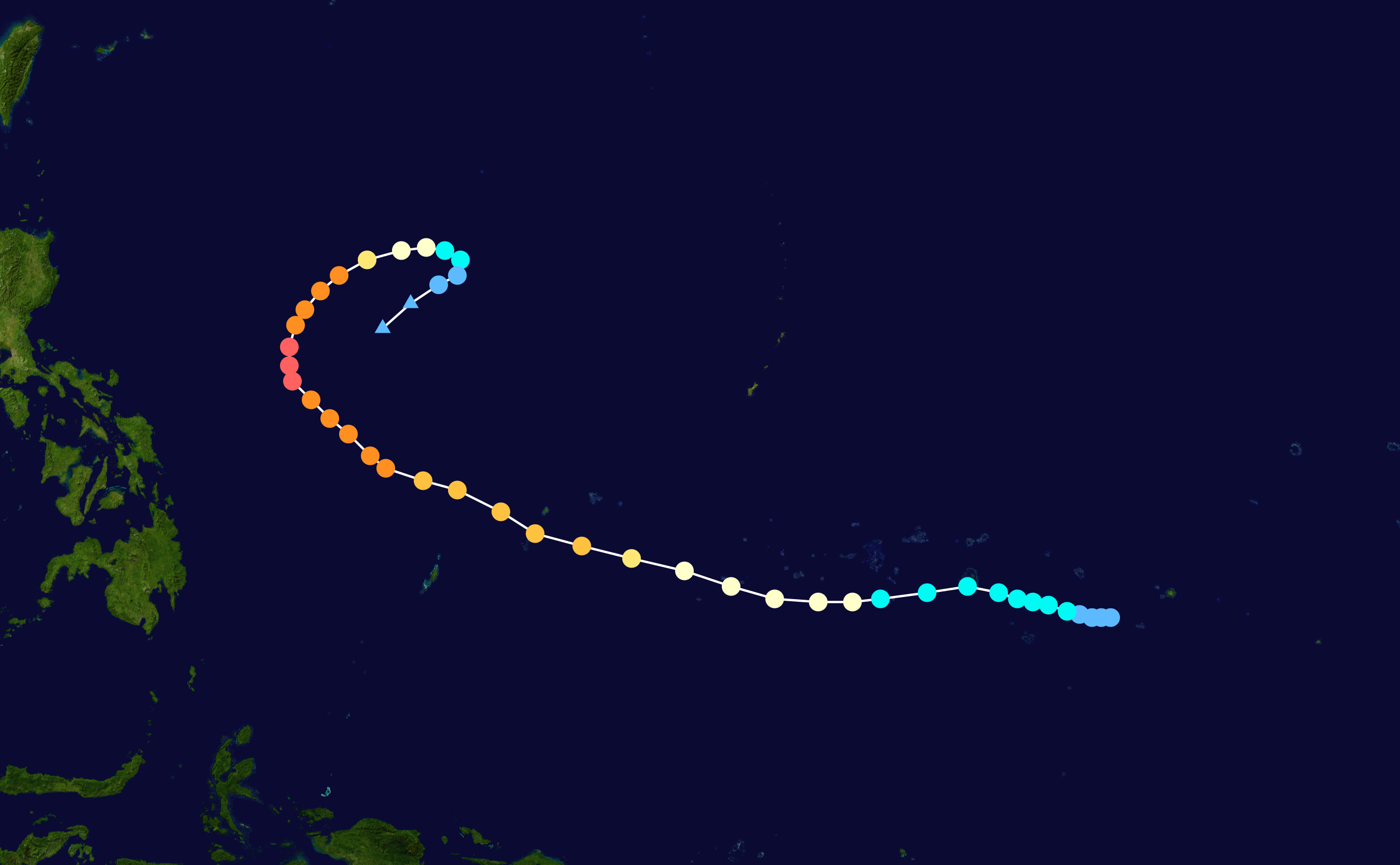 Track map of Typhoon Mitag of the 2002 Pacific typhoon season. The points show the location of the storm at 6-hour intervals. The colour represents the storm's maximum sustained wind speeds as classified in the Saffir–Simpson scale (see below), and the shape of the data points represent the nature of the storm, according to the legend below. Saffir–Simpson scale Tropical depression≤38 mph≤62 km/h Category 3111–129 mph178–208 km/h Tropical storm39–73 mph63–118 km/h Category 4130–156 mph209–251 km/h Category 174–95 mph119–153 km/h Category 5≥157 mph≥252 km/h Category 296–110 mph154–177 km/h Unknown Storm typeTropical cycloneSubtropical cycloneExtratropical cyclone / Remnant low / Tropical disturbance